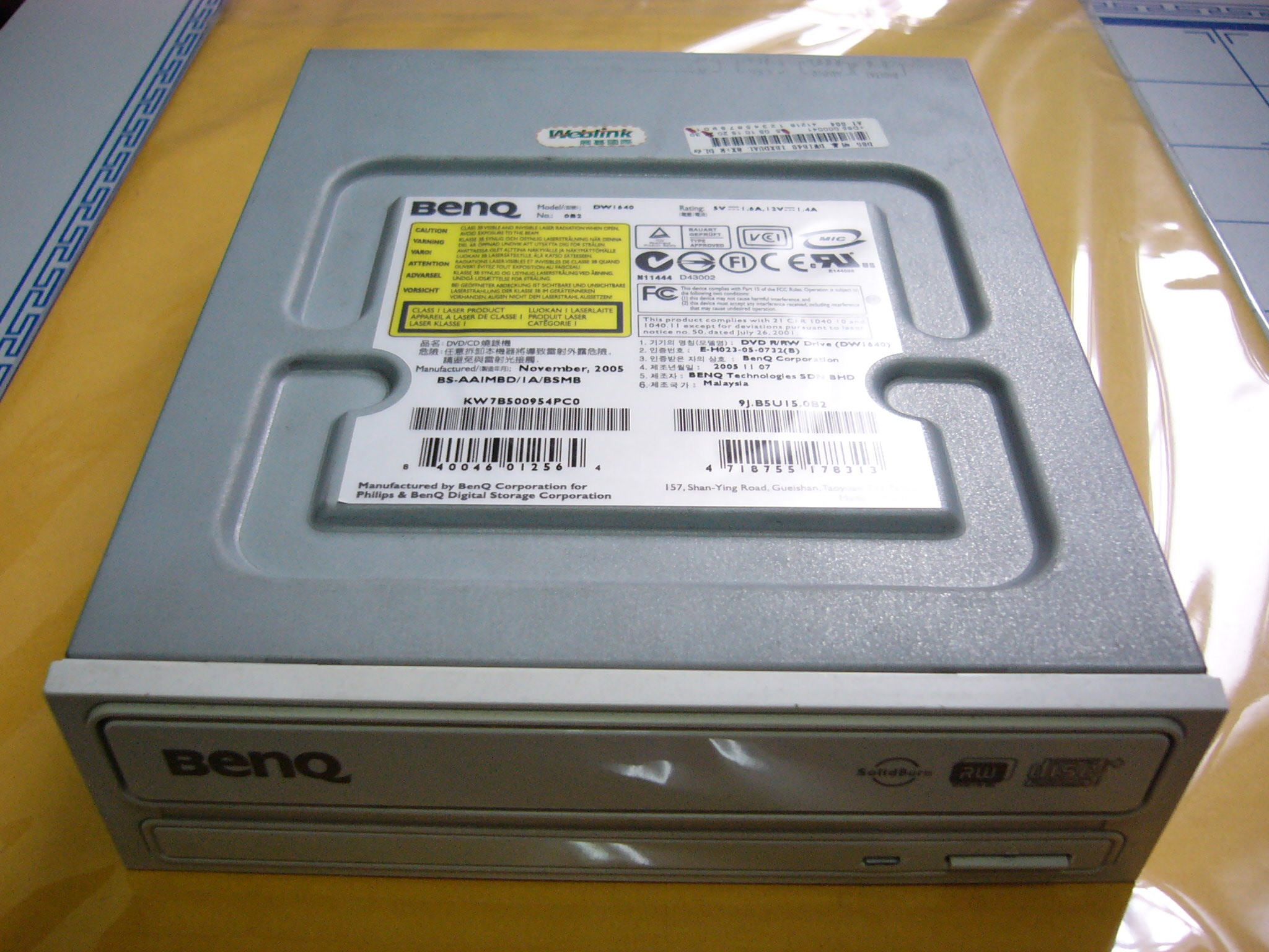 BenQ DVD burner DW1640 Beige made in November 17, 2005.